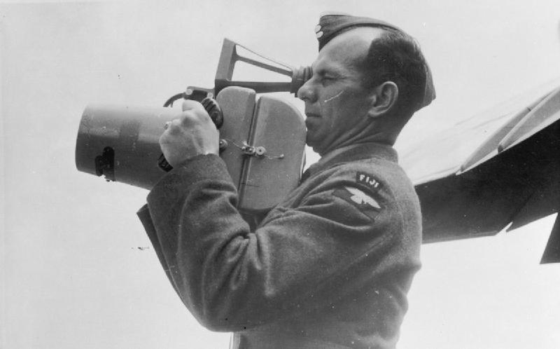 Aerial Photography during the Second World War A hand-held F24 aerial camera. The F24 was first produced by the Royal Aircraft Establishment in 1925 and was used by the Royal Air Force for day and night aerial photography until 1955. It was very reliable although it lacked the high definition of the F8 camera and was therefore of limited use for military mapping. The F24 could be accommodated within most aircraft types and consisted of a magazine, camera body, shutter gearbox and lens cone, all of which were interchangeable. It had a focal-plane shutter with speeds ranging from 1/40 to 1/120 second. The hand-held version of the camera was operated by a hand drive projecting from the camera gearbox.